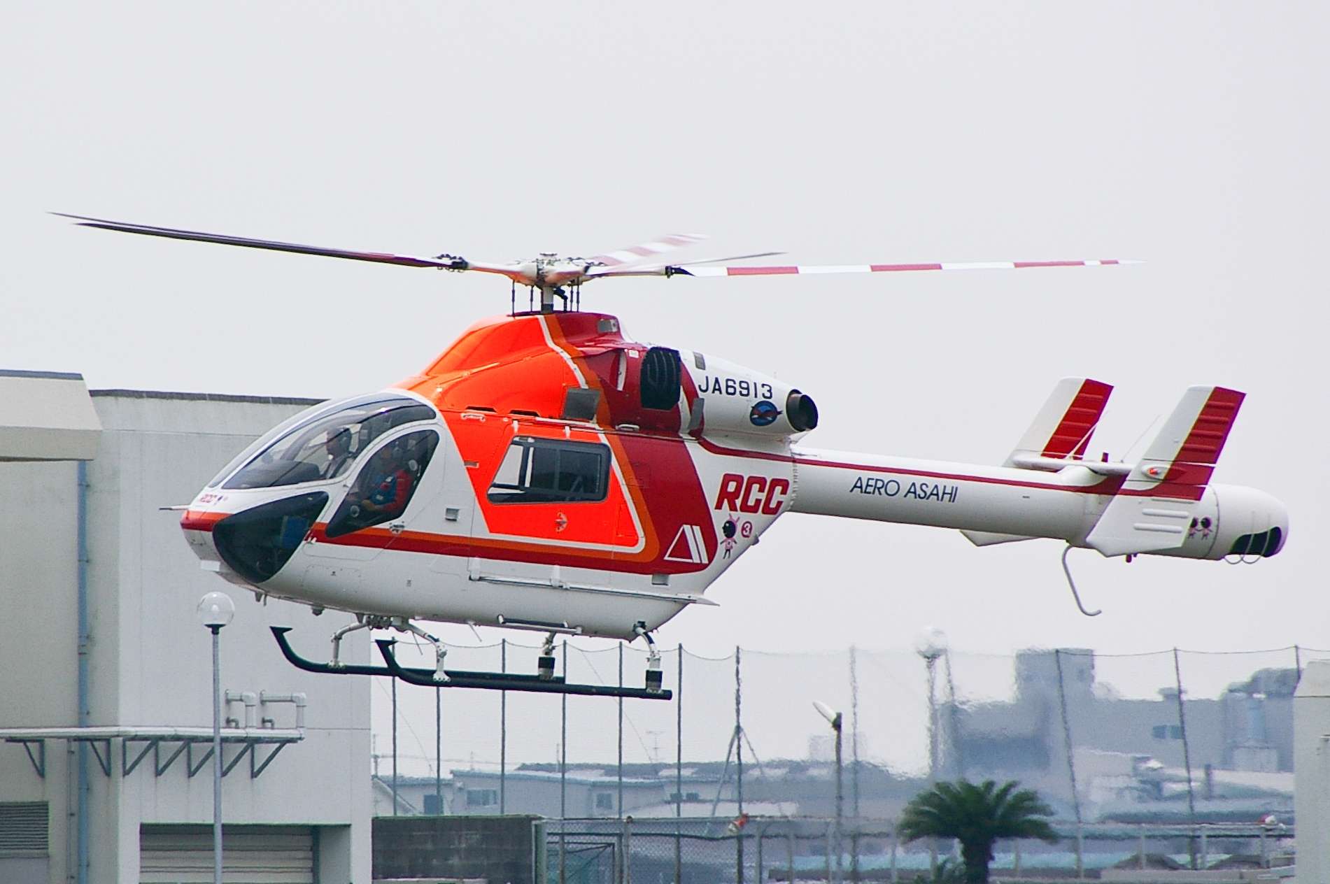 Photograph of Aero Asahi Corporation's MD902 (JA6913), taking off from Yao Airport, chartered by RCC Broadcasting Company for news gathering, taken at Osaka Prefectural Central Wide-area Disaster Prevention Base, Yao, Osaka Prefecture, Japan.